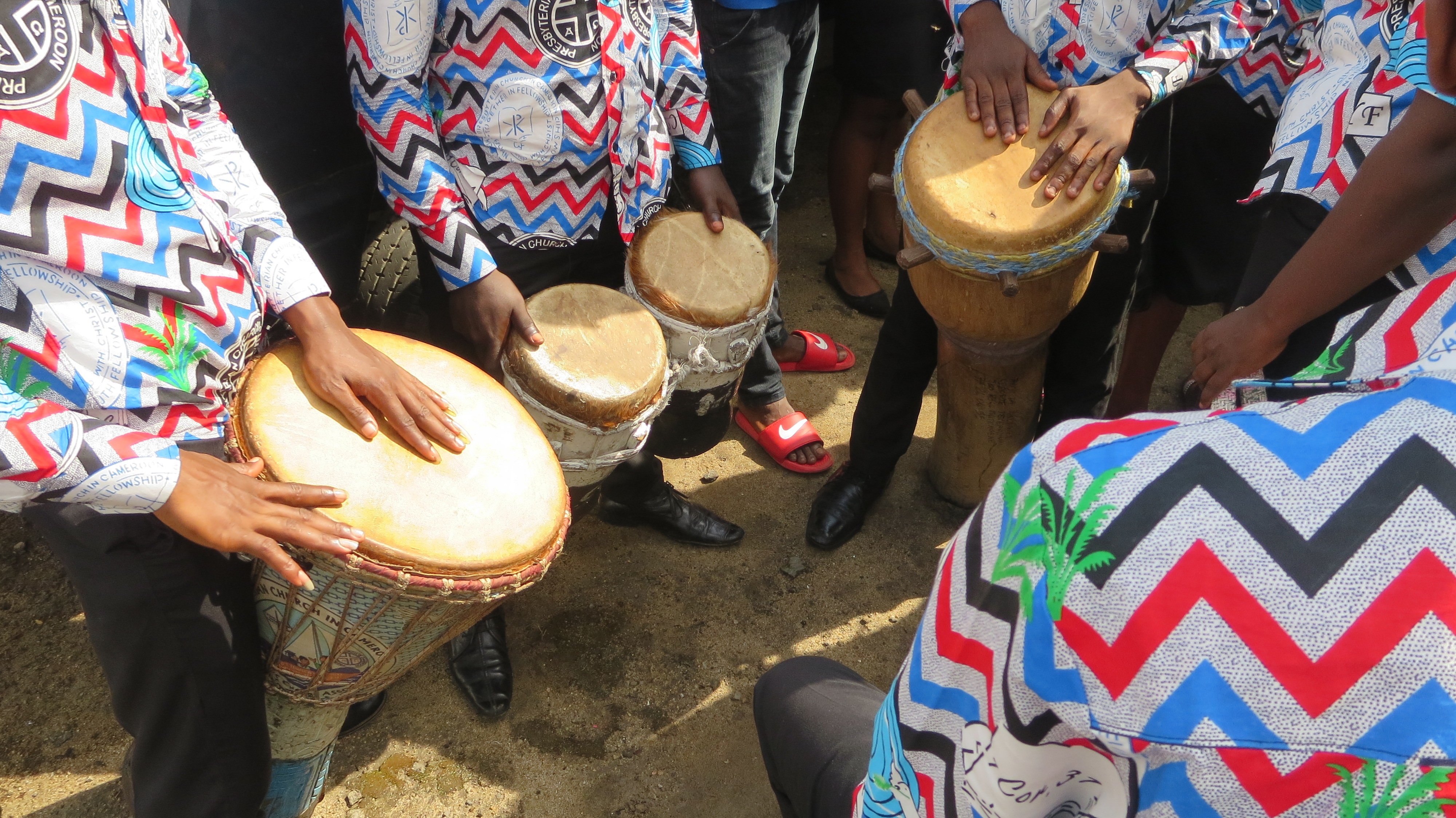 Sounds make sence to the hearing when they are played at suitable frequencies. When 2 or more sounds a played together, there is need for harmony so as to produce good melody This is an image with the theme "Play" from: Cameroon